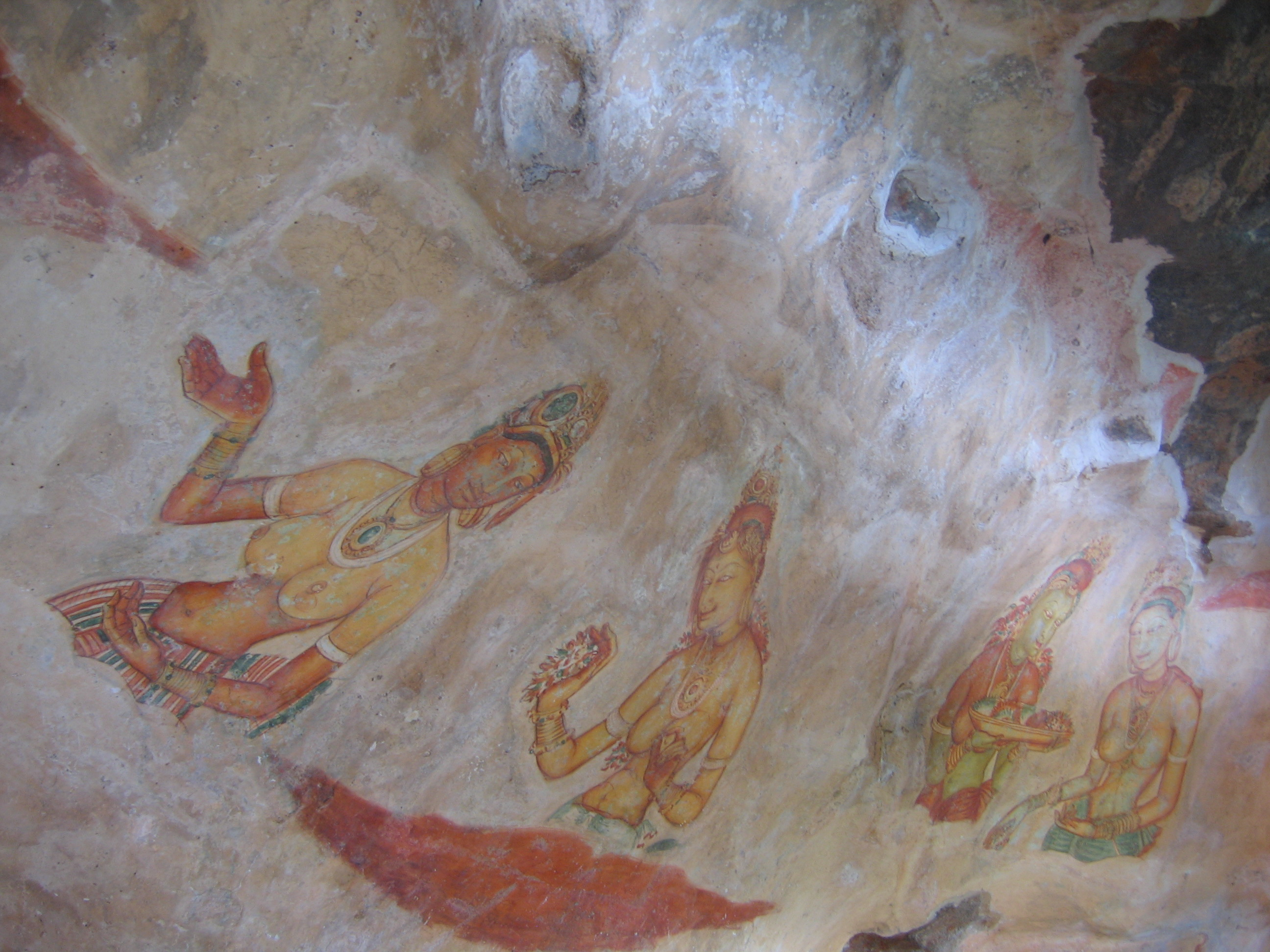 Ladies of Sigiriya, Sri Lanka